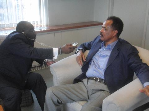 Voice of America's Peter Clottey interviews Eritrean president Isaias Afewerki in New York.